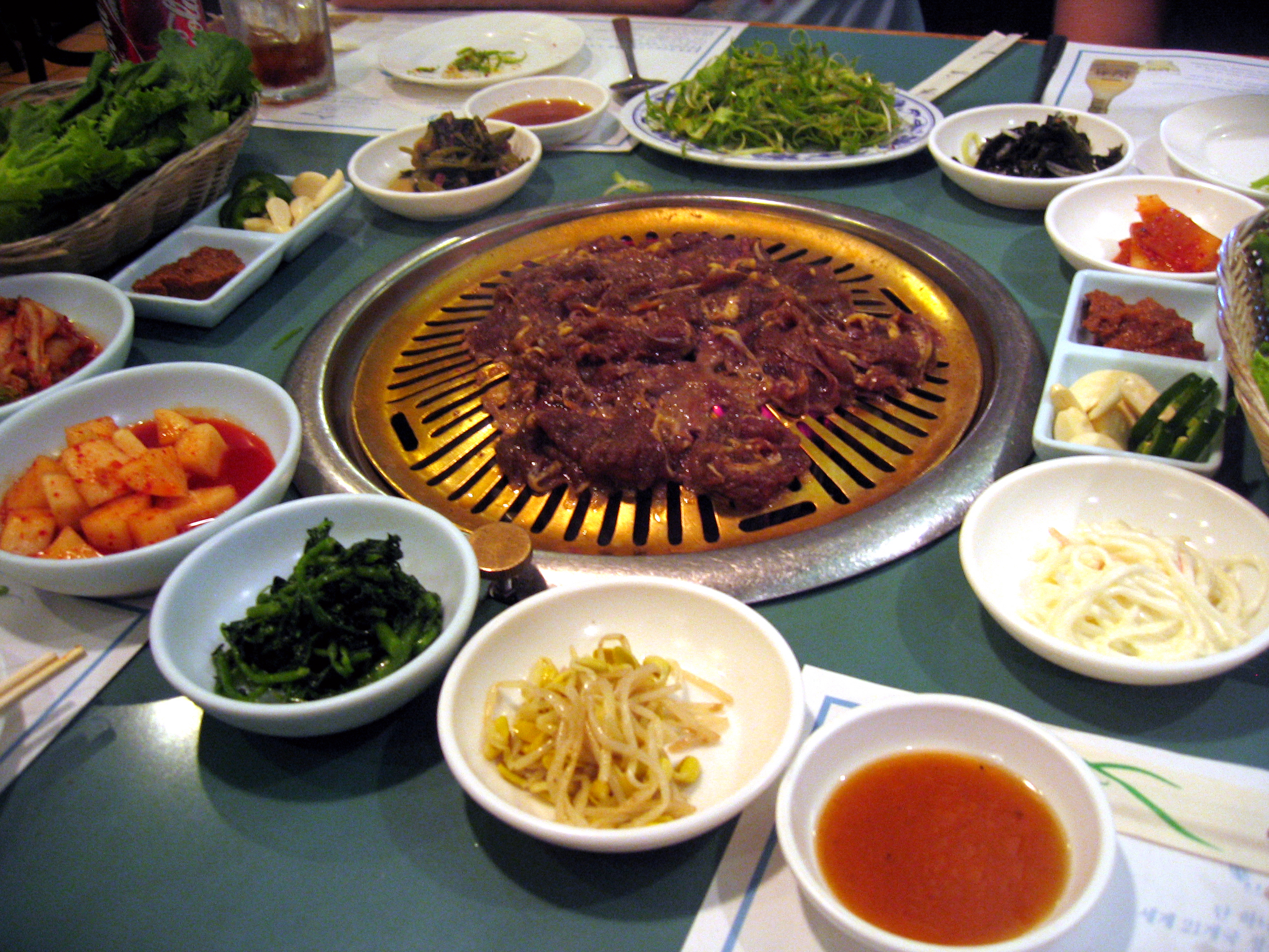 불고기와 반찬, Bulgogi accompanied with leaf vegetables and Banchan.